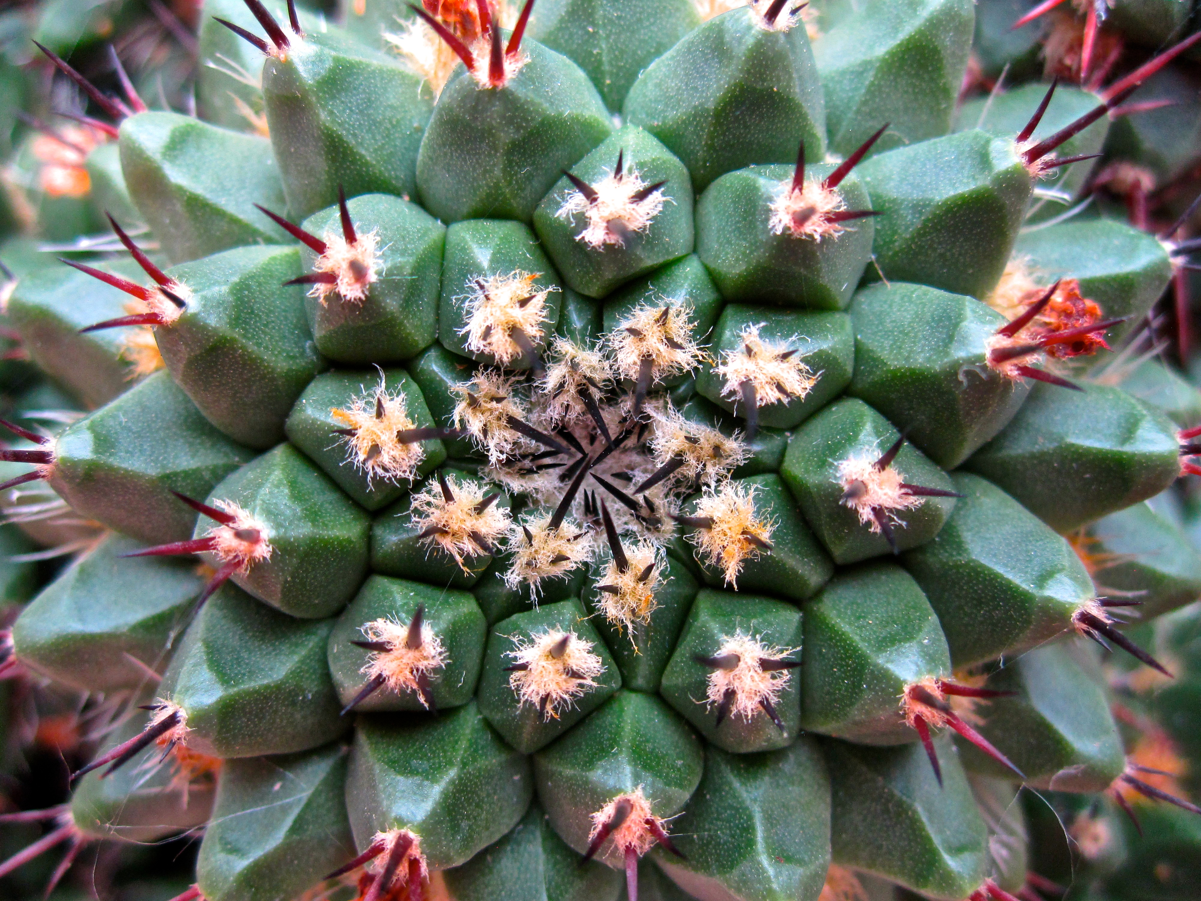 Seen at the Missouri Botanical Garden.